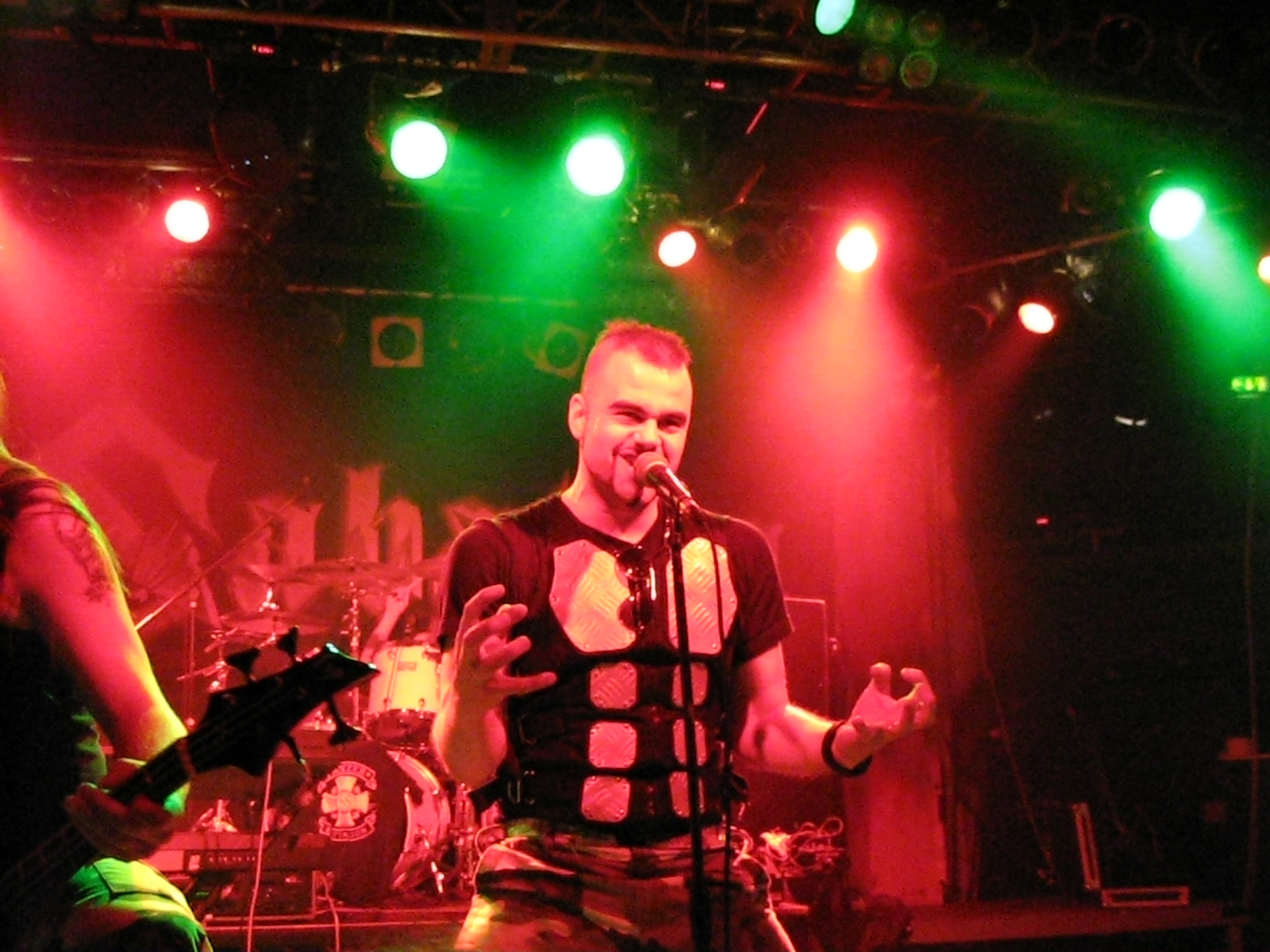 Joakim Broden of Sabaton, January 21, 2007